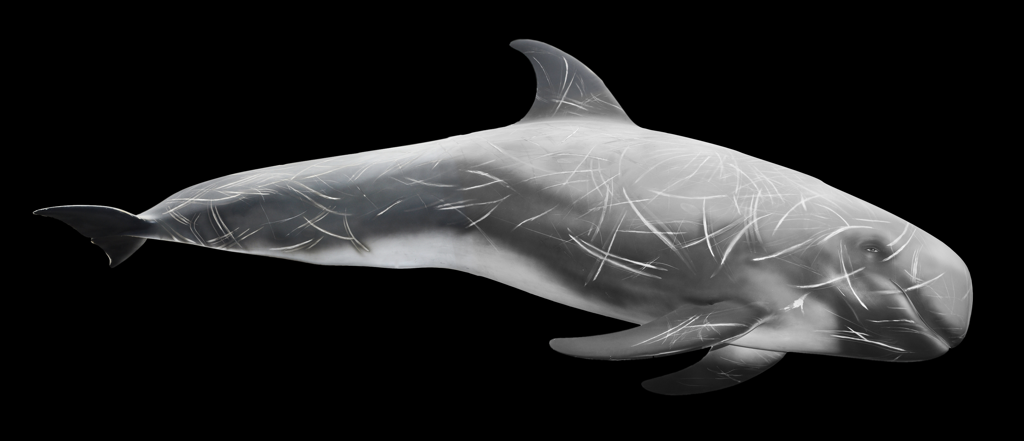 Grampus griseus reconstitution